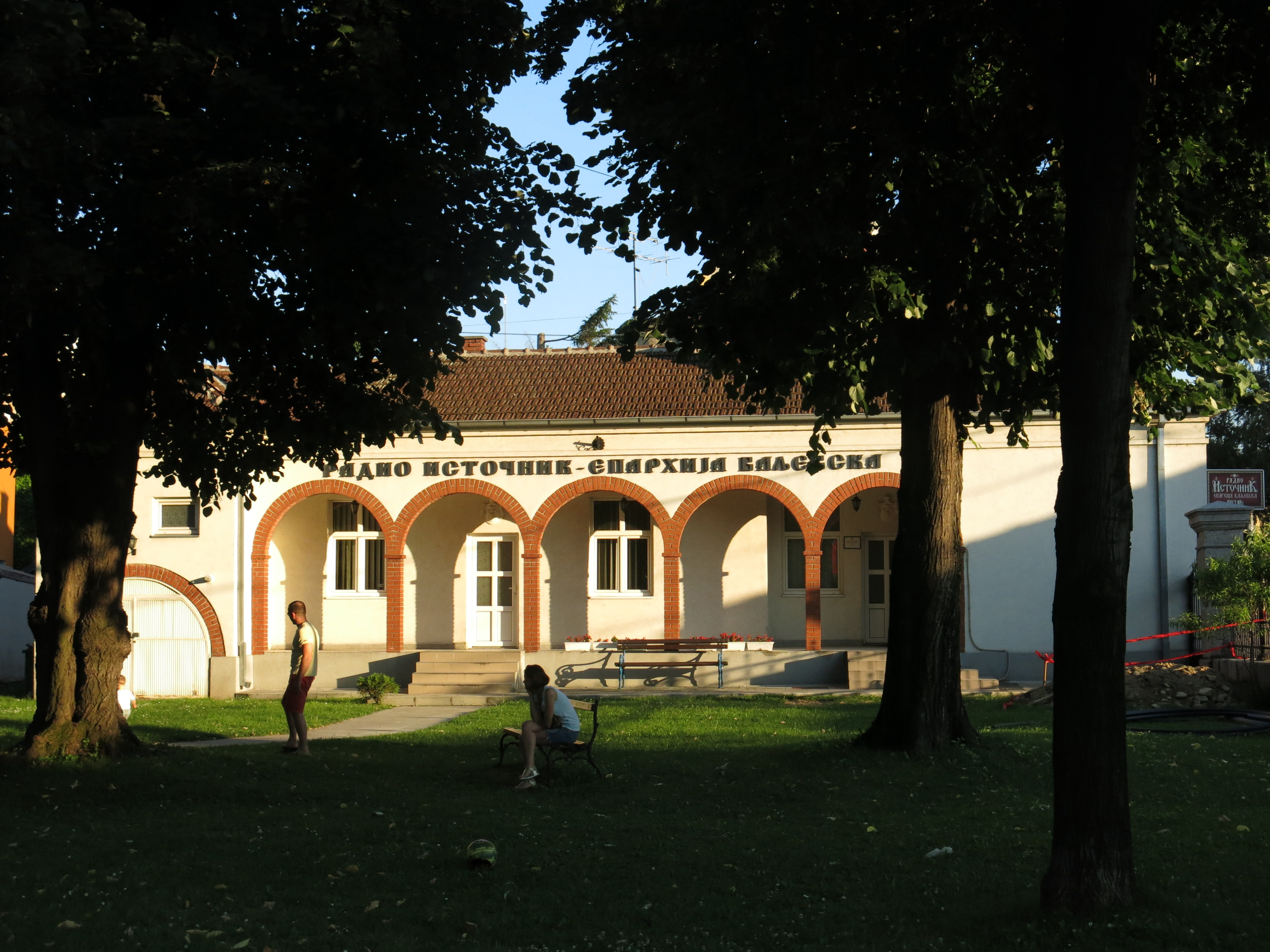 Valjevo, Church of Virgin Mary